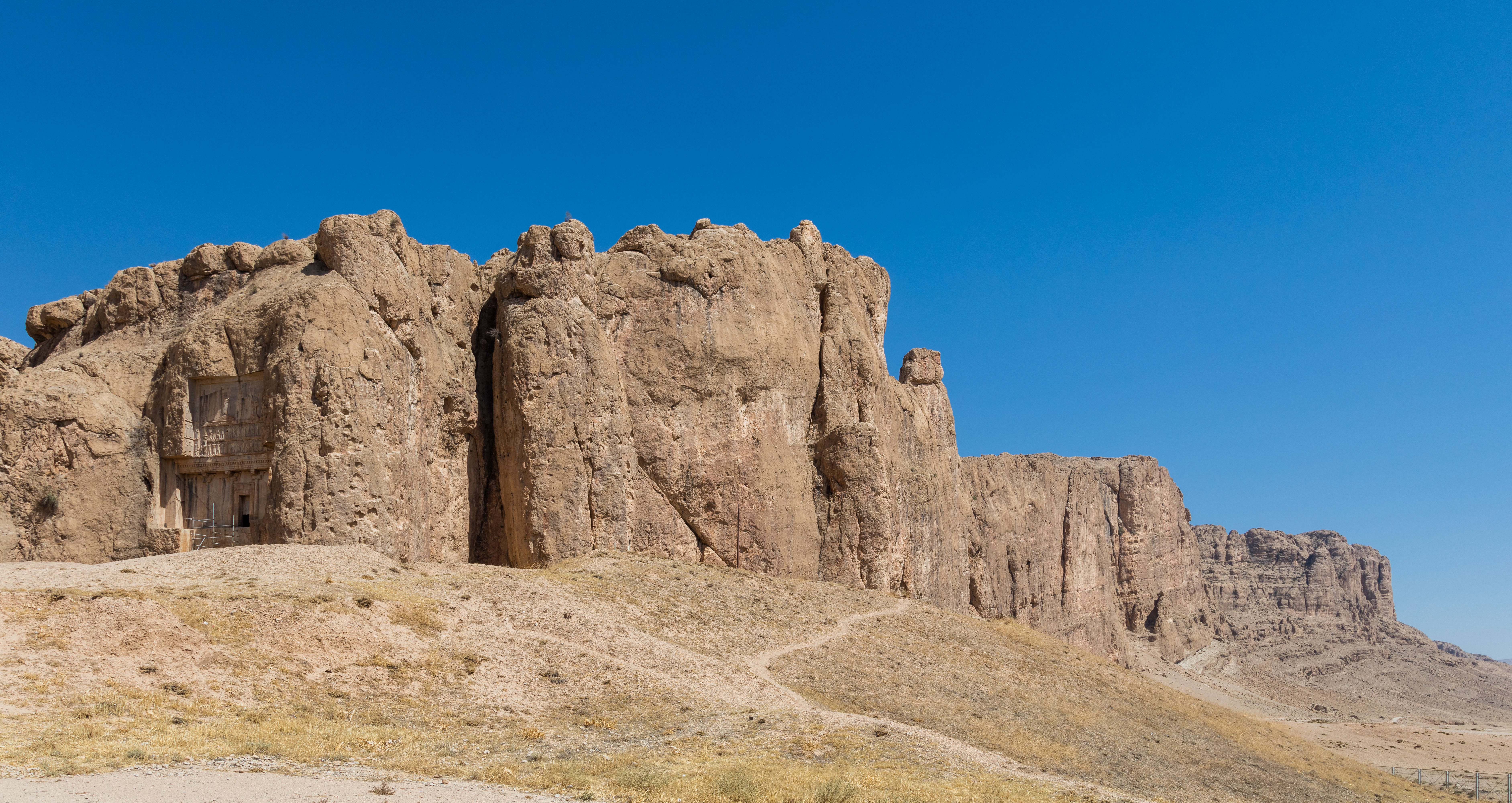 Naghsh-e rostam, Iran